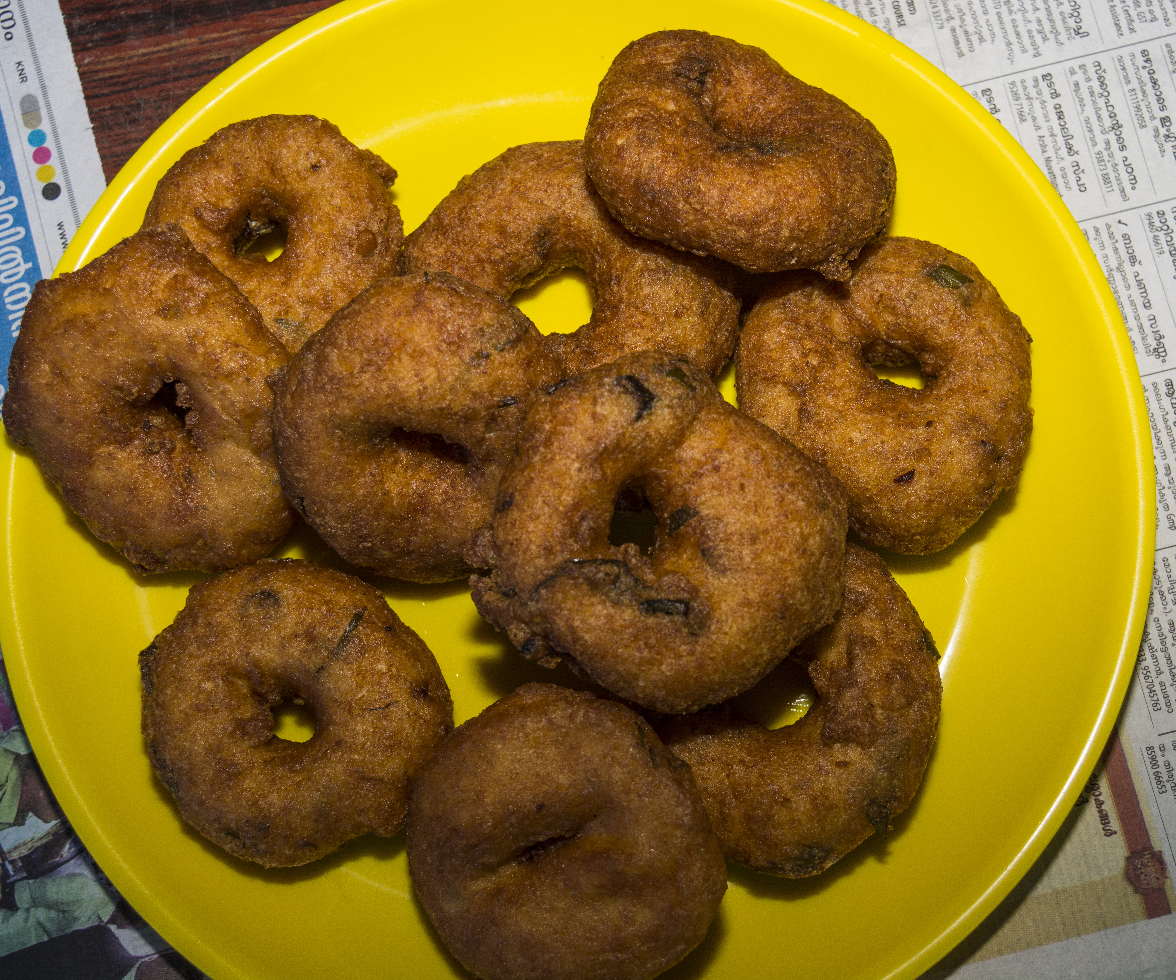 Uzhunnu vada or medu vada is a very common breakfast in South India